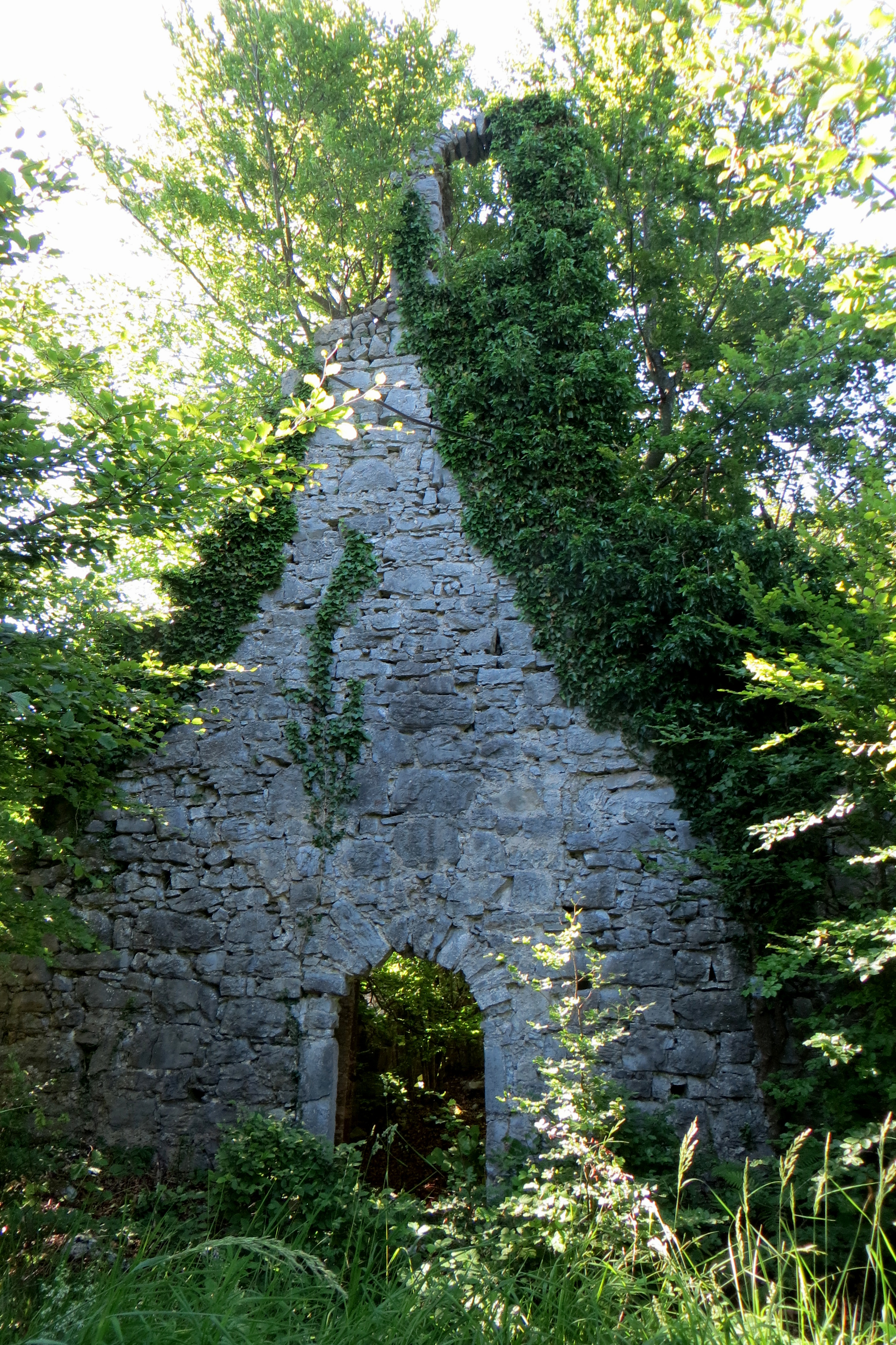 Ruins of Prophet Elijah Church in Kozice, Municipality of Kočevje, Slovenia